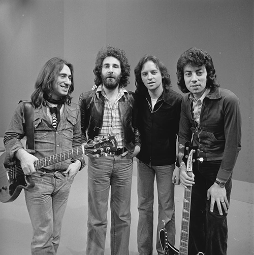 10cc in AVRO's TopPop (Dutch television show) in 1974